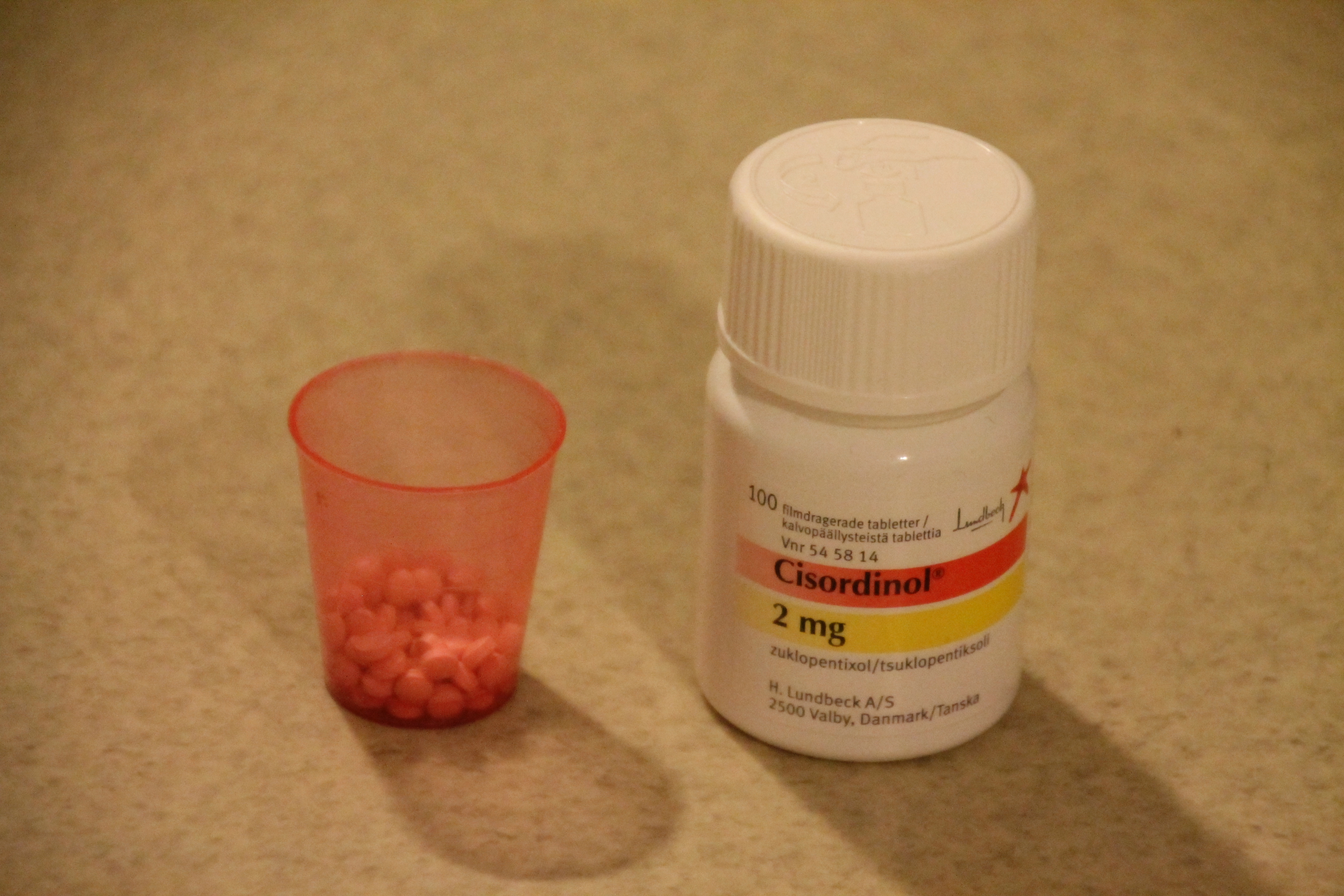 Cisordinol (Zuclopenthixol) 2mg pills.